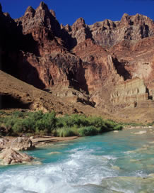 The Little Colorado River viewed from inside the Little Colorado River Gorge